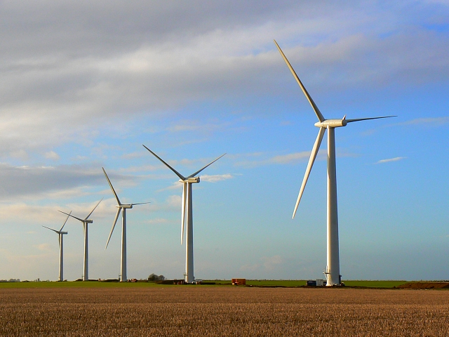 Westmill wind farm, Watchfield 1st February 2008